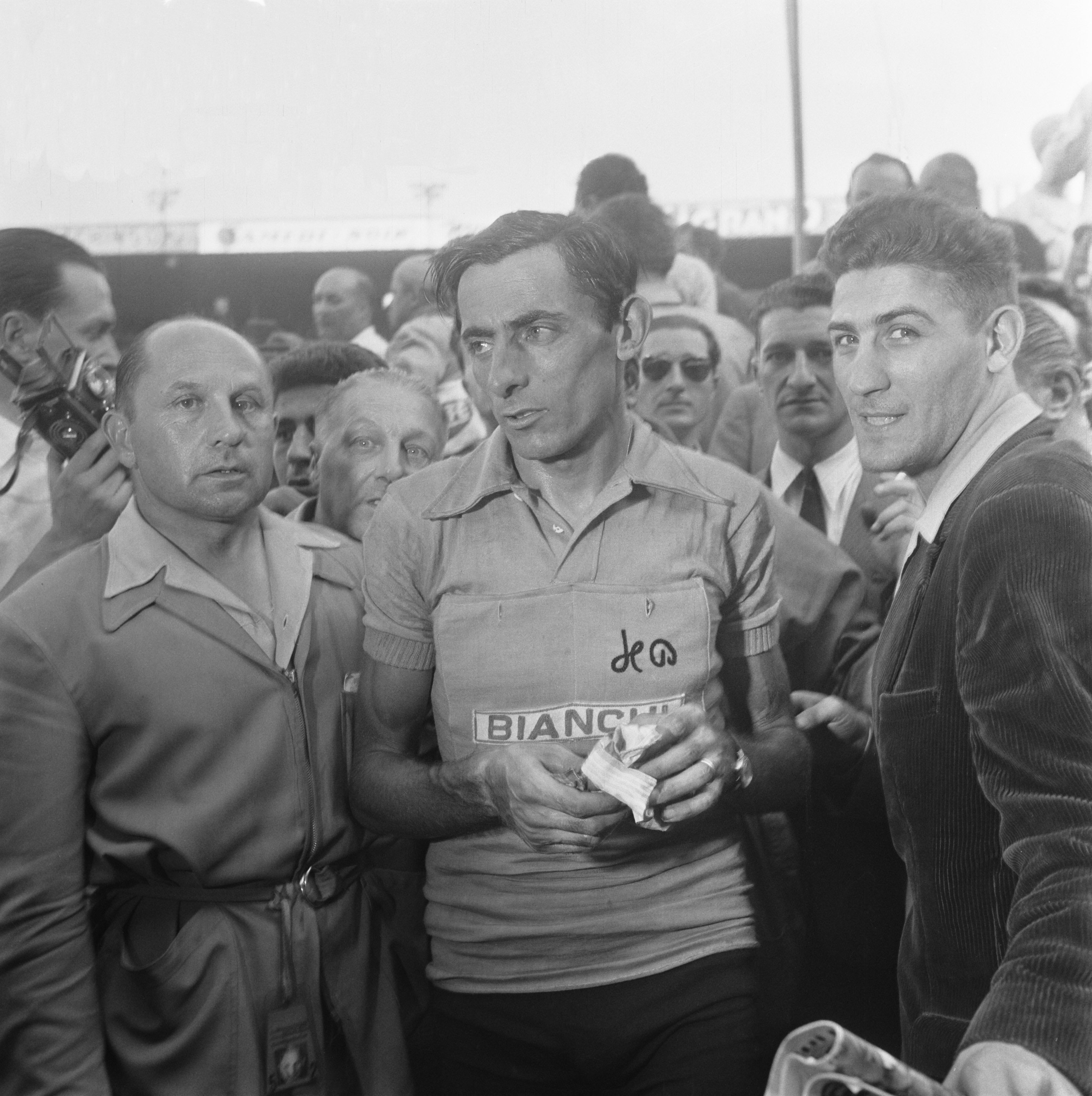 Fausto Coppi at the 1952 Tour de France.